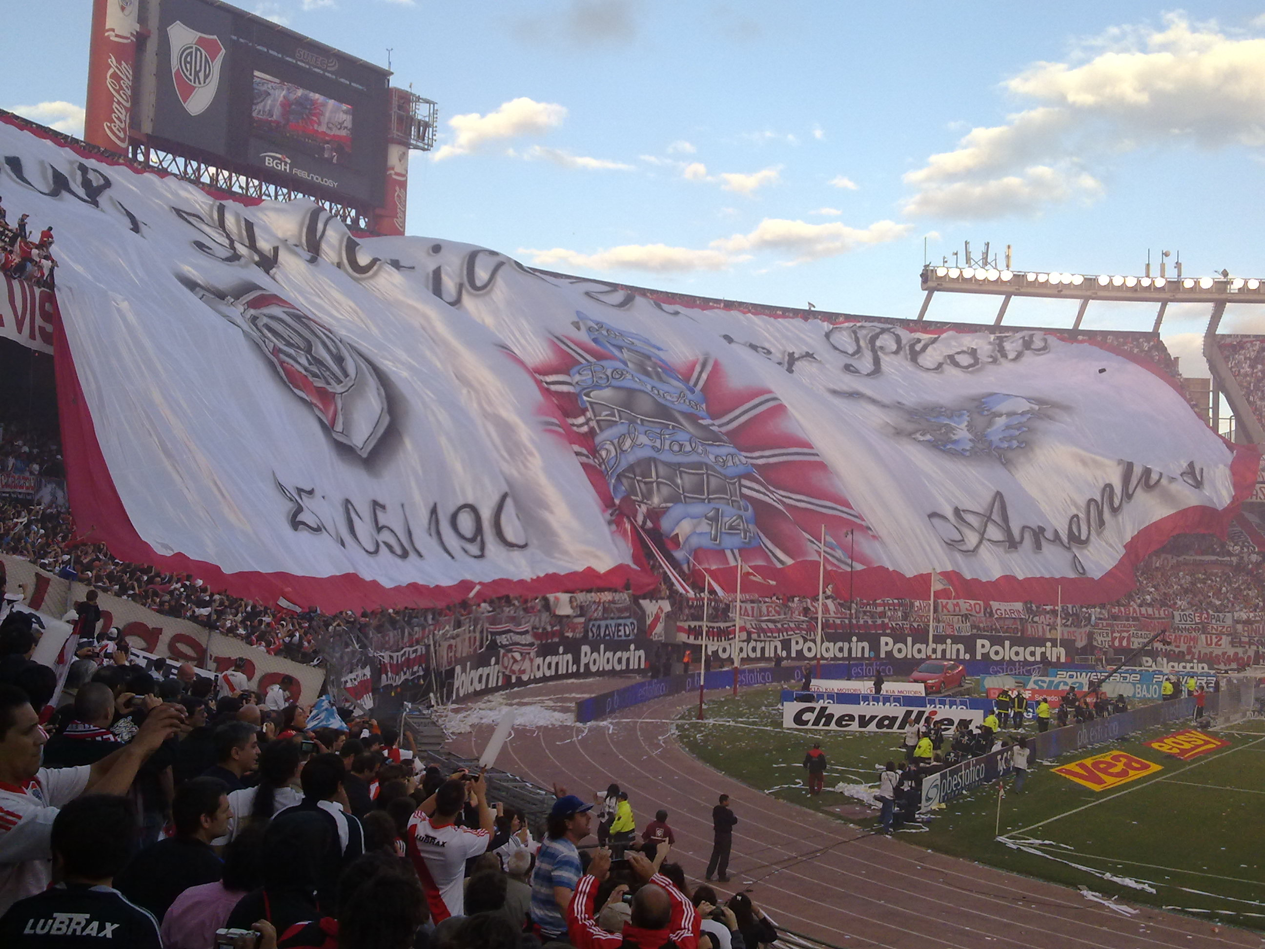 Big flag made by the fans of the Argentinean soccer club River Plate, in occasion of the match with Boca Juniors, its traditional rival.